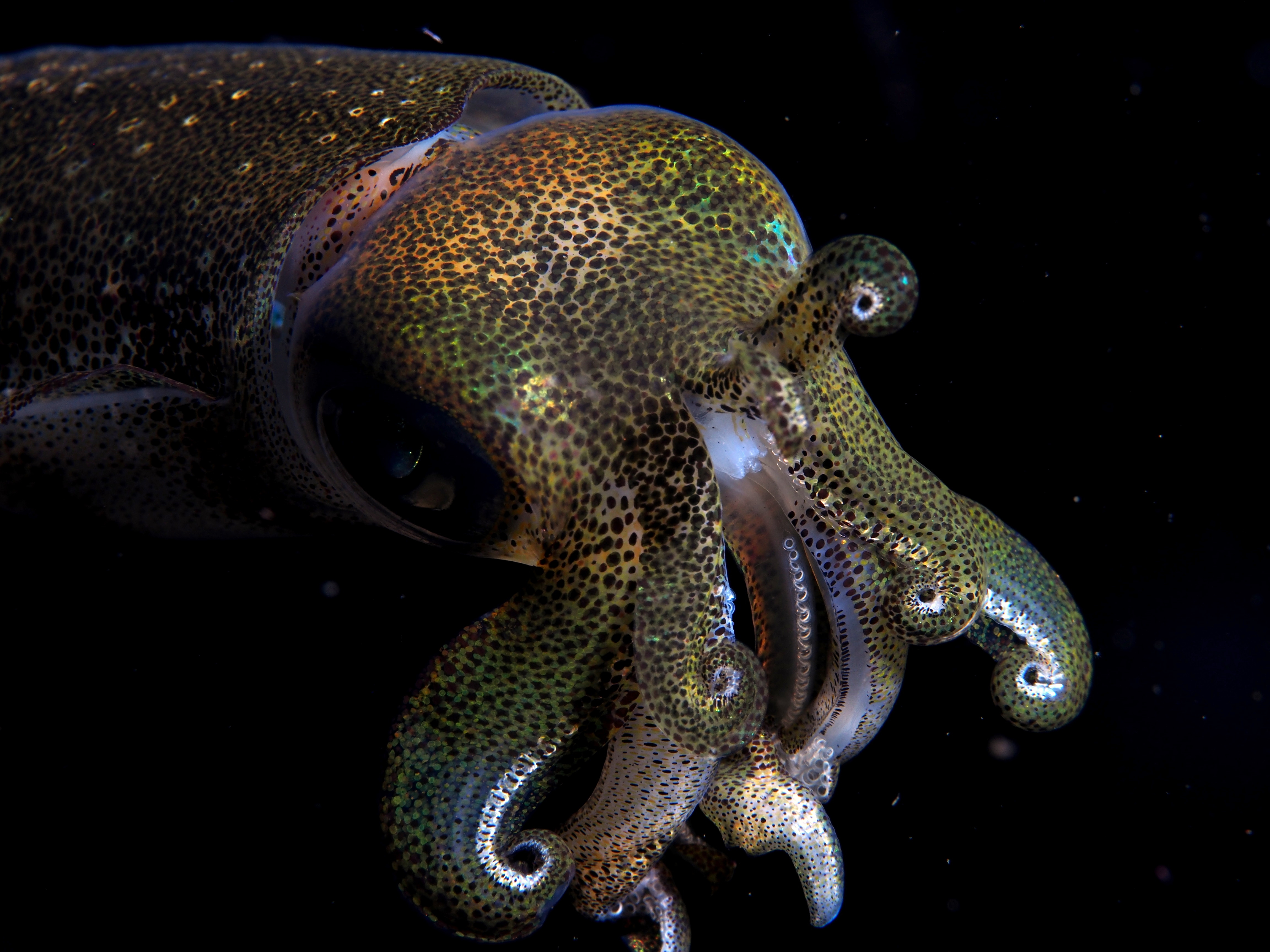 Diving Anilao with Buceo Dive and Beach resort. Anilao, Philippines 2014 - Bigfin reef squid (Sepioteuthis lessoniana)